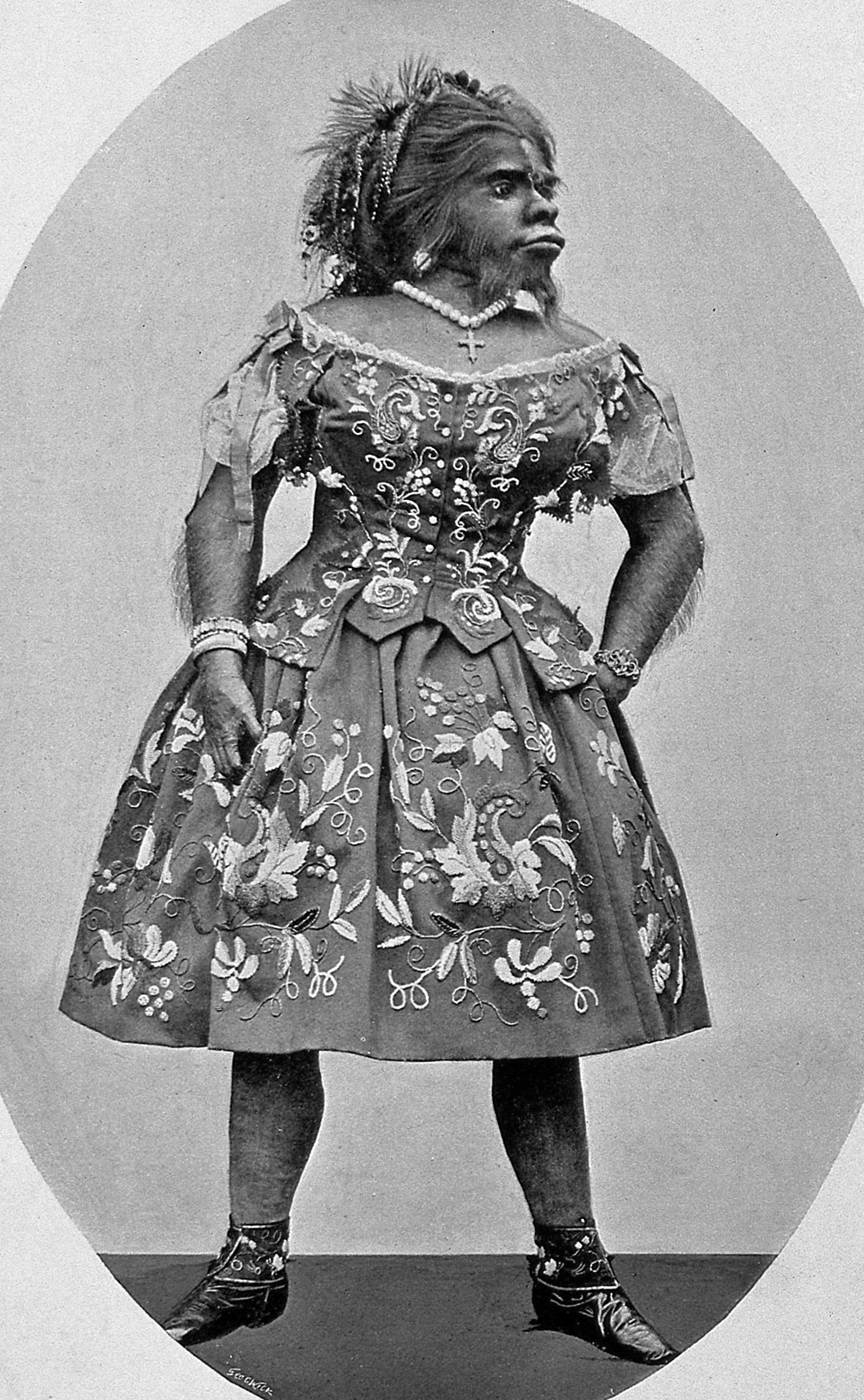 The embalmed body of Julia Pastrana.